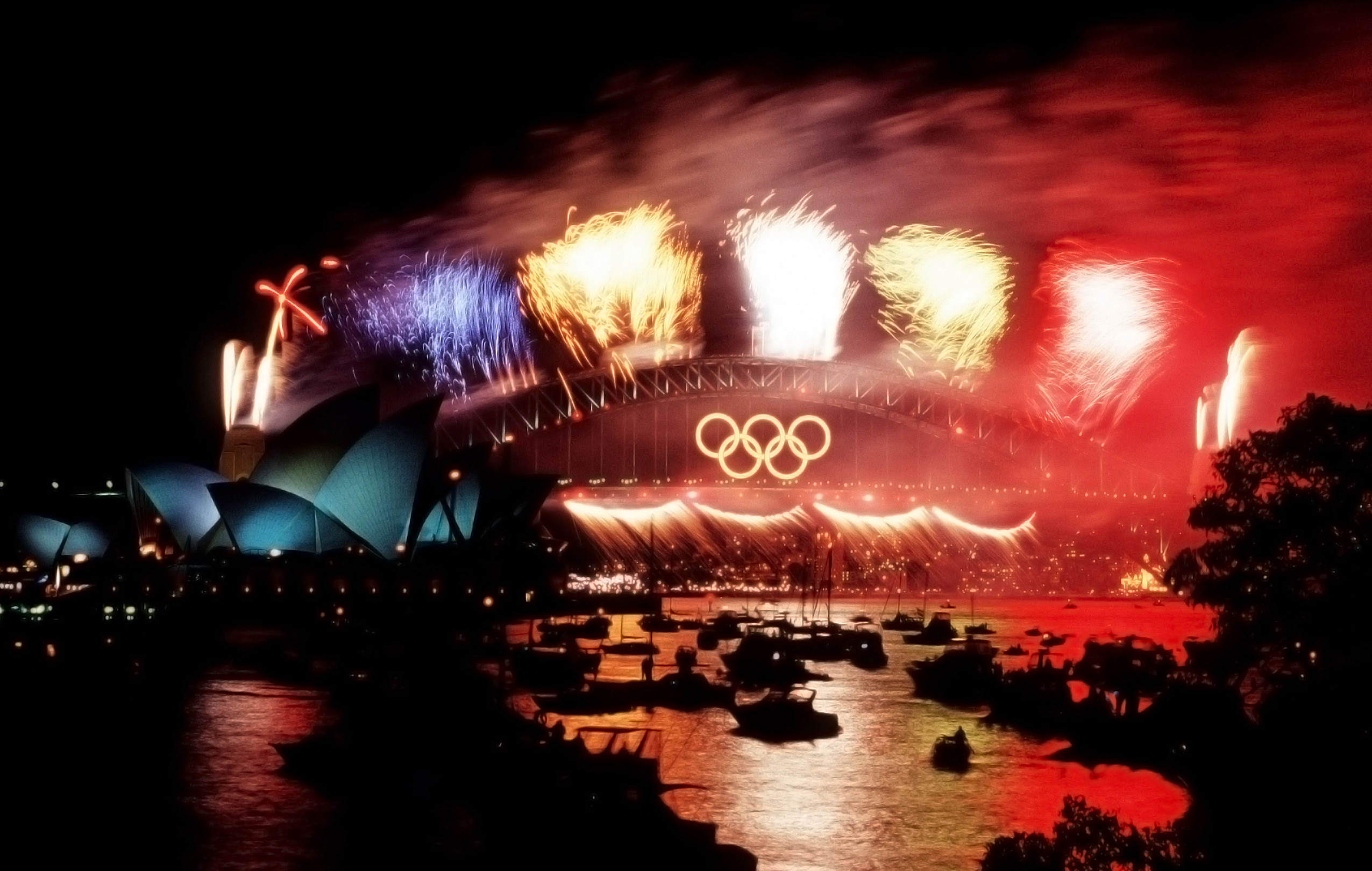 Public Domain. Suggested credit: DOD via pingnews. Additional information from source: Fireworks over the Sydney Harbour Bridge during closing ceremonies of the Olympics games in Sydney, Australia. DoD photo by: TSGT ROBERT A. WHITEHEAD, USAF Date Shot: 1 Oct 2000